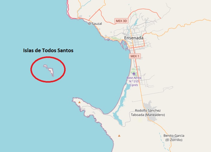 Location map of the Todos Santos islands in the Bay of Todos Santos, Ensenada, Baja California Аҧсшәа: Mapa de ubicación de las islas de Todos Santos en la bahía de Todos Santos, frente a Ensenada, Baja California.